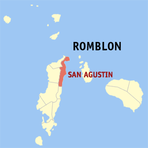 Map of Romblon showing the location of San Agustin